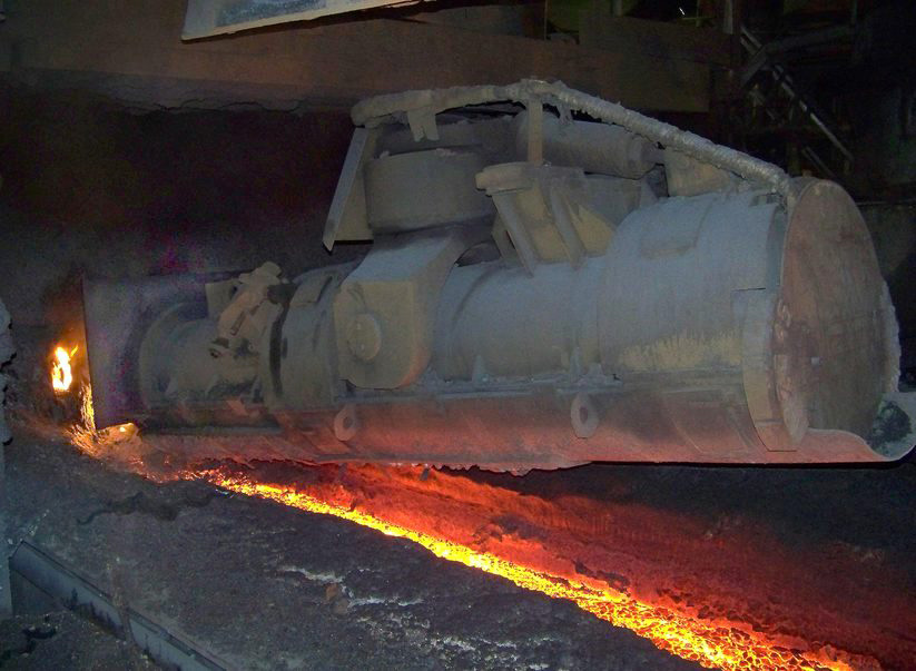 Mud gun on the tapehole face.